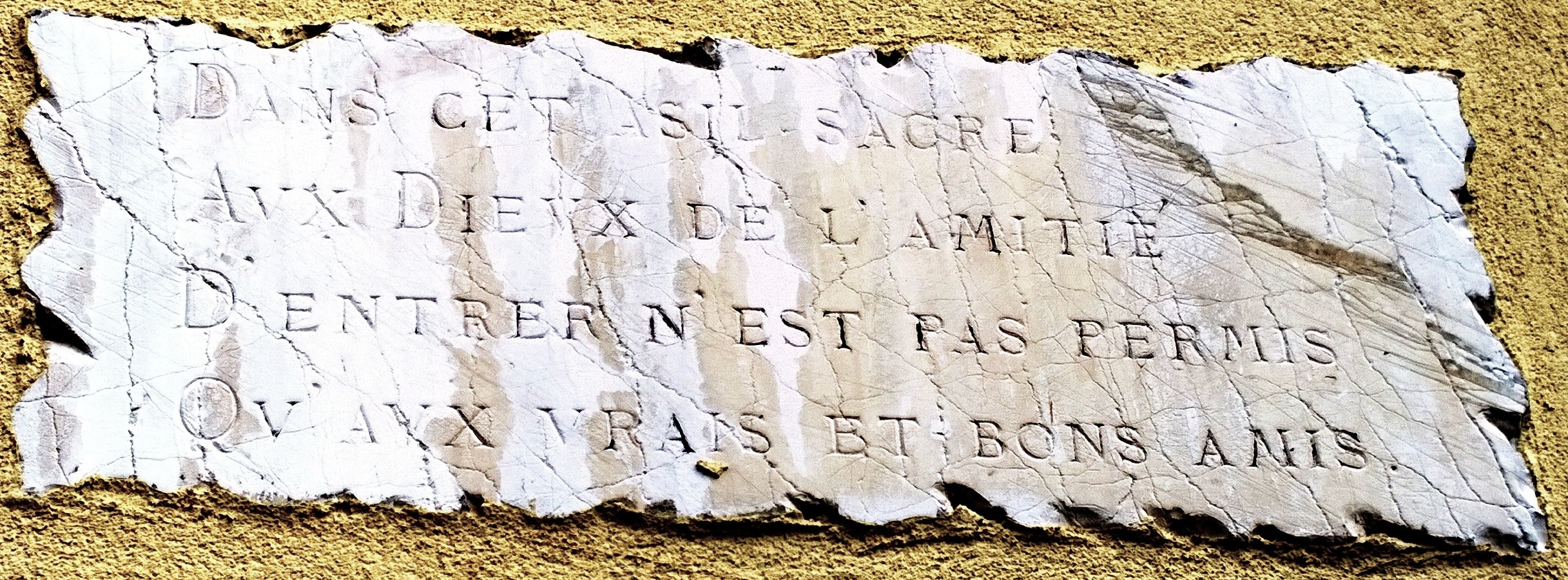 Stone in Villa Barni (Canzo) with the motto of Società del Giardino, 18th century